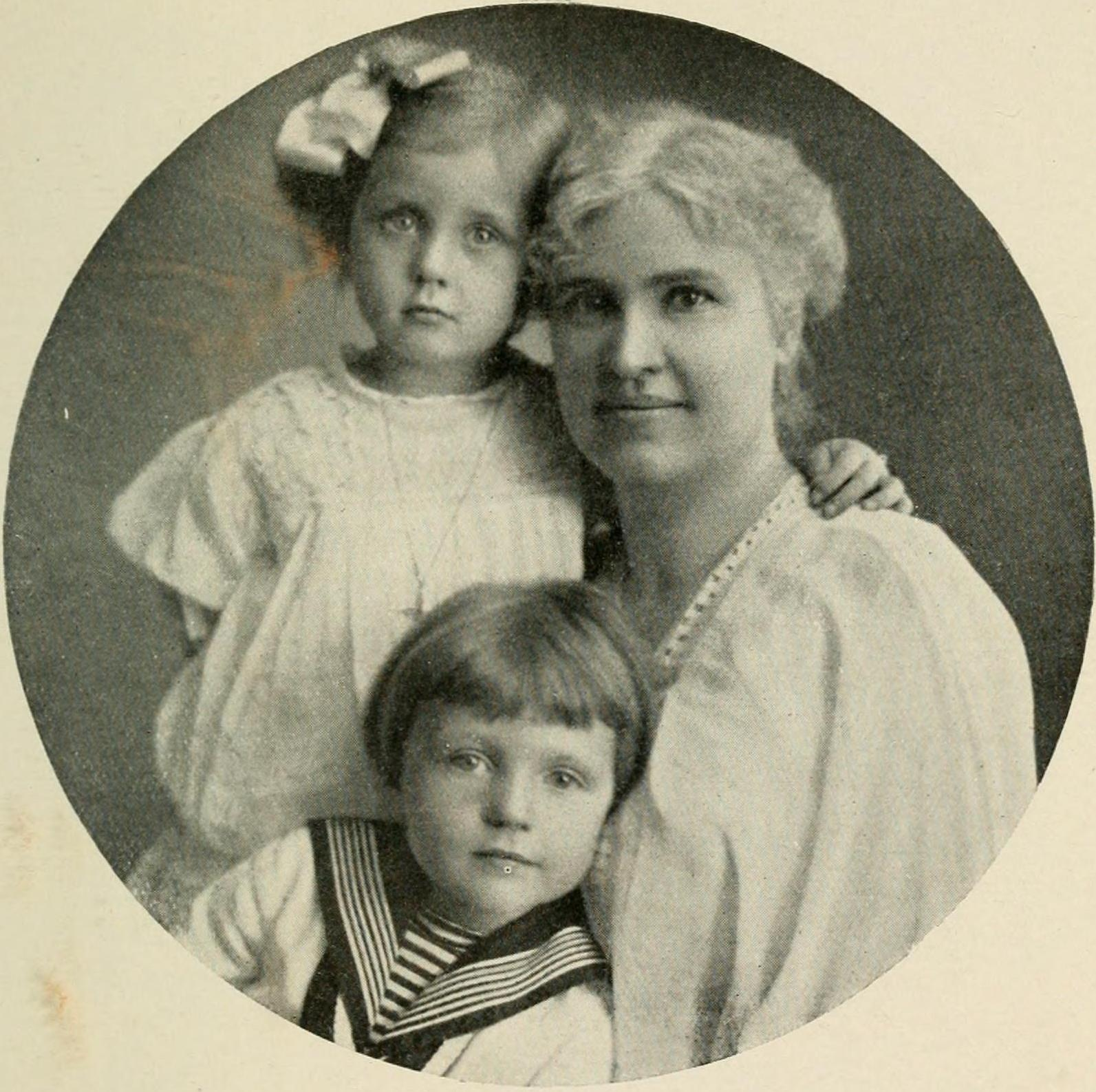 Ethel Greening-Pantazzi at Odessa